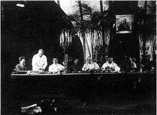 The Presidium of the 13th Congress of the Russian Communist Party (Bolsheviks): in the picture Kalinin, Voroshilov and Stalin among others.